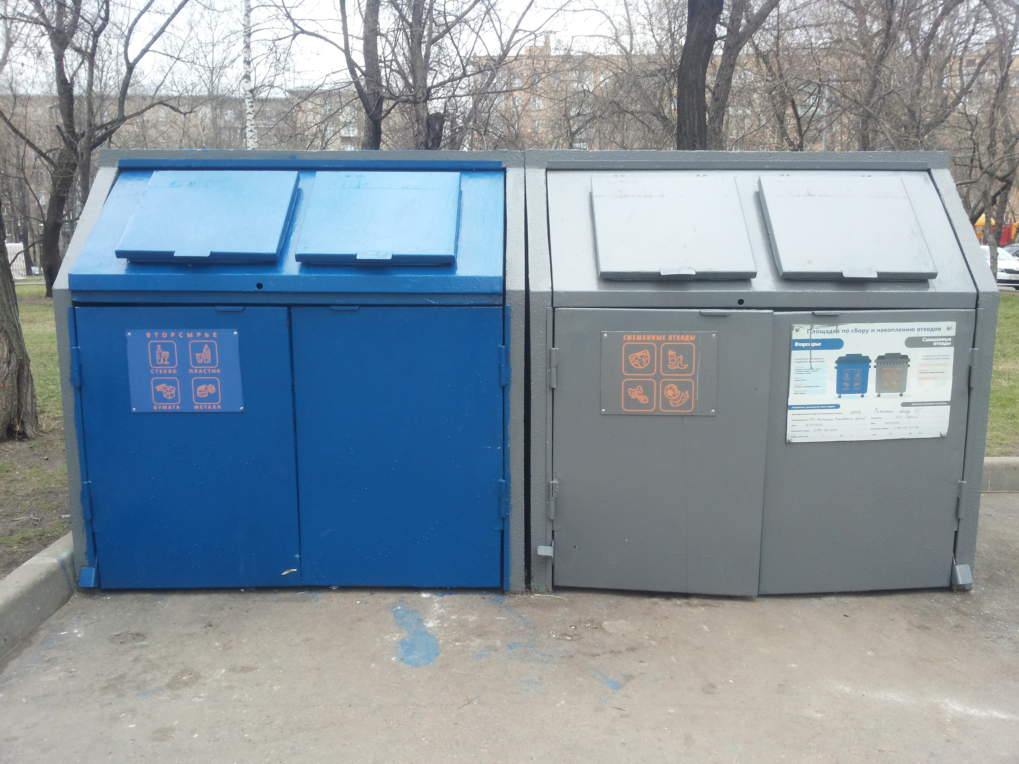 Separate waste dumpster, Moscow